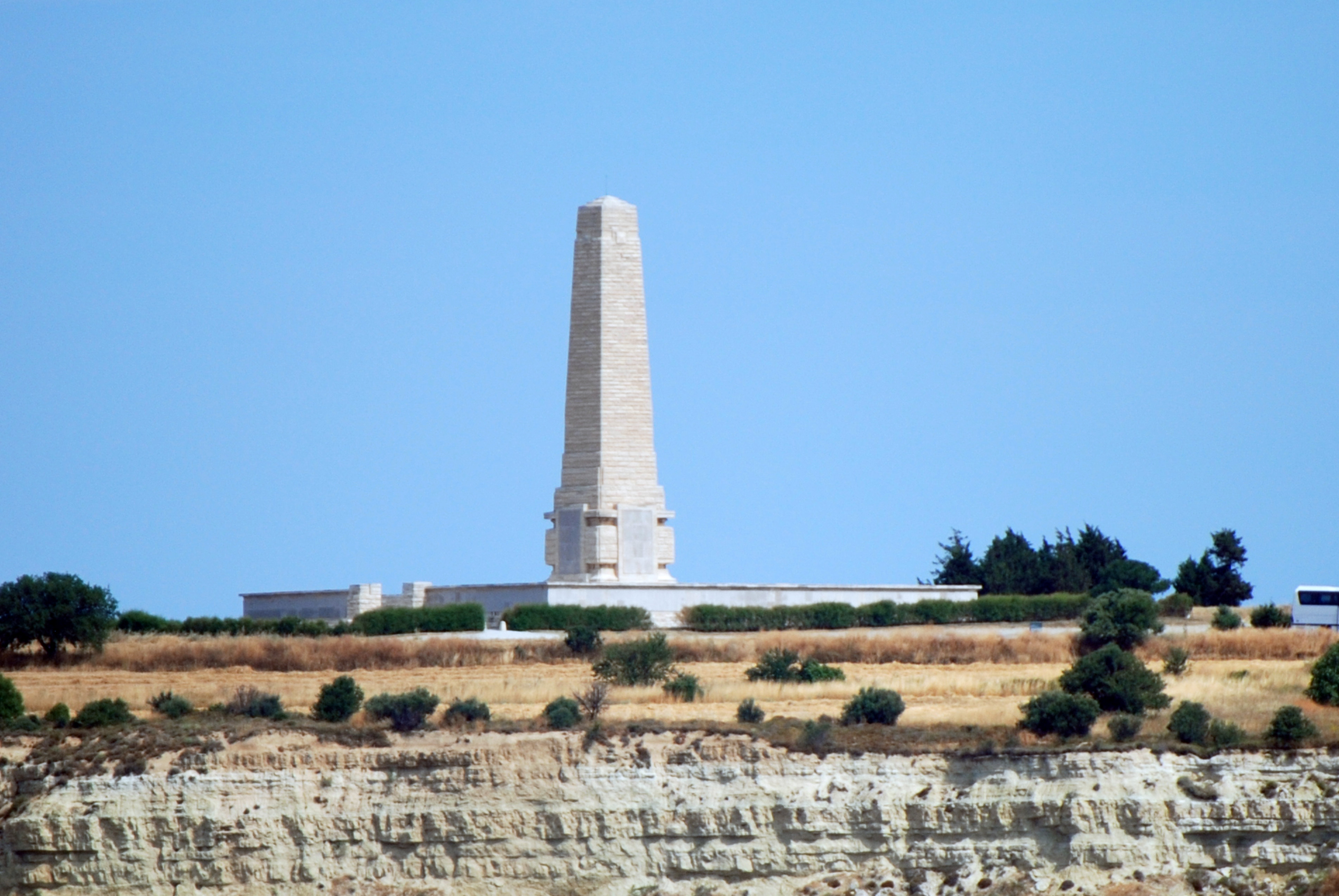 The Empire (or Cape Helles) Memorial - World War I Memorial